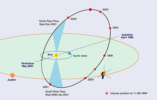 Ulysses 2nd orbit trajectory